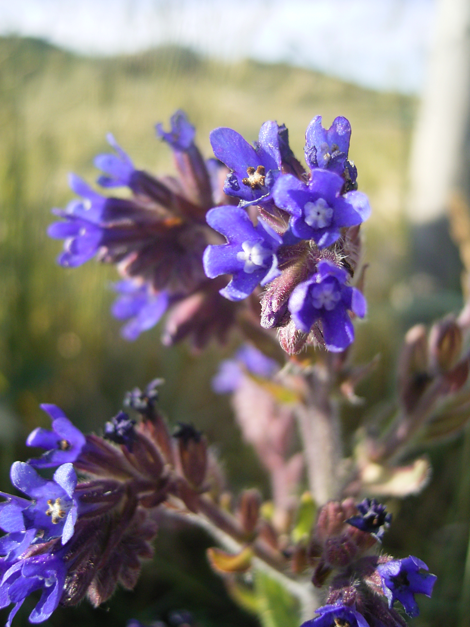 This photo shows the flowers of anchusa officinalis